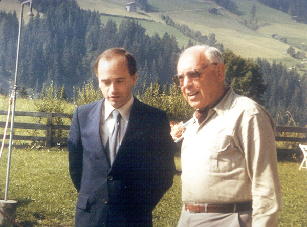 Dr. Hans Koechler, left, with Polish philosopher Adam Schaff at the Alpbach European Forum (Alpbach, Tyrol, Austria, August 1980)